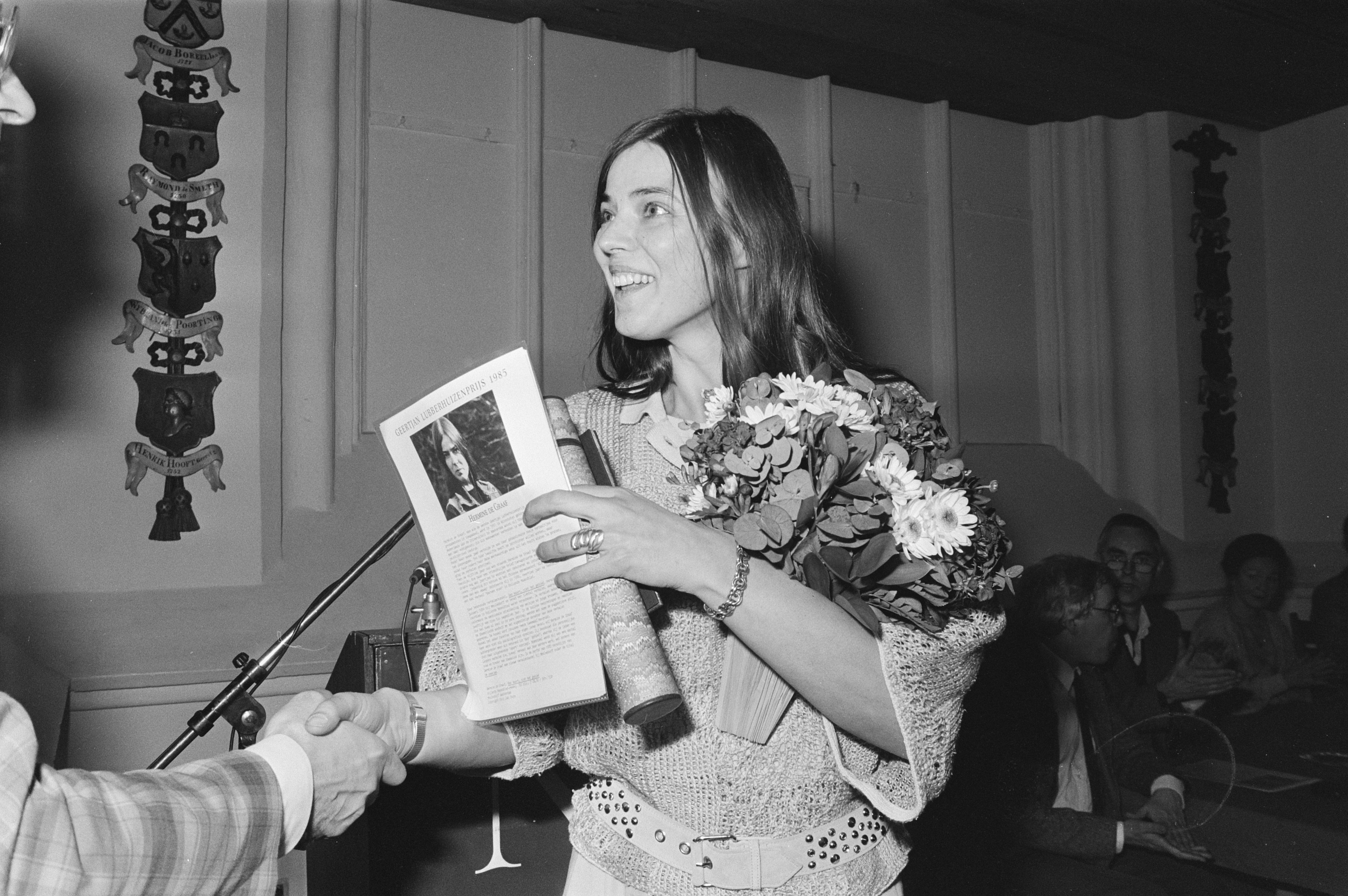 Dutch author Hermine de Graaf receives Geert Jan Lubberhuizen Prize -literary prose debutes for her book "Een kaart, niet het gebied" (15 March 1985)